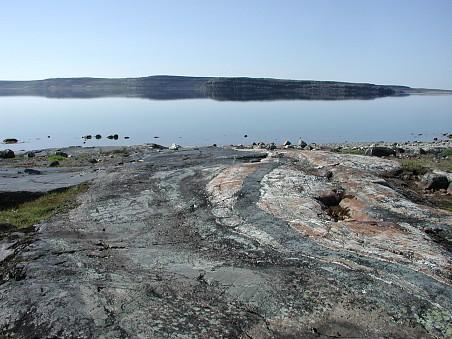 An outcrop of metamorphosed volcanosedimentary rocks from the Porpoise Cove locality, Nuvvuagittuq supracrustal belt, Canada. Some of these rocks have Sm/Nd ages in excess of 4.0 Ga and may be the oldest rocks on Earth.